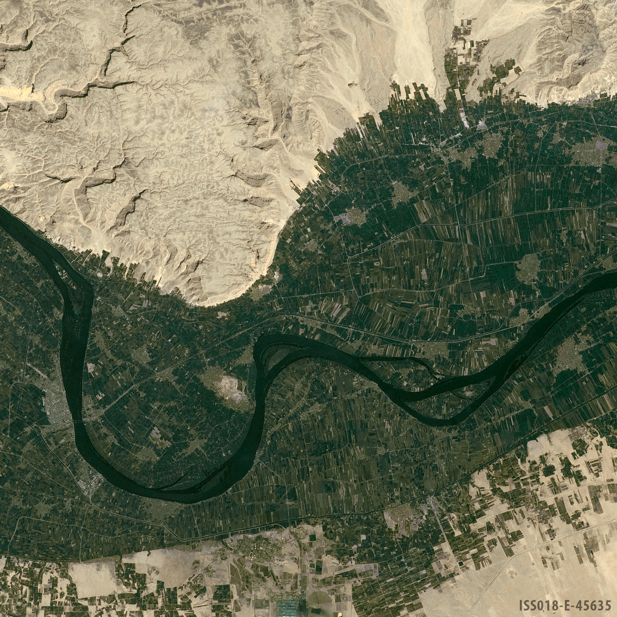 The Nag Hammadi area satelite picture (base for maps)